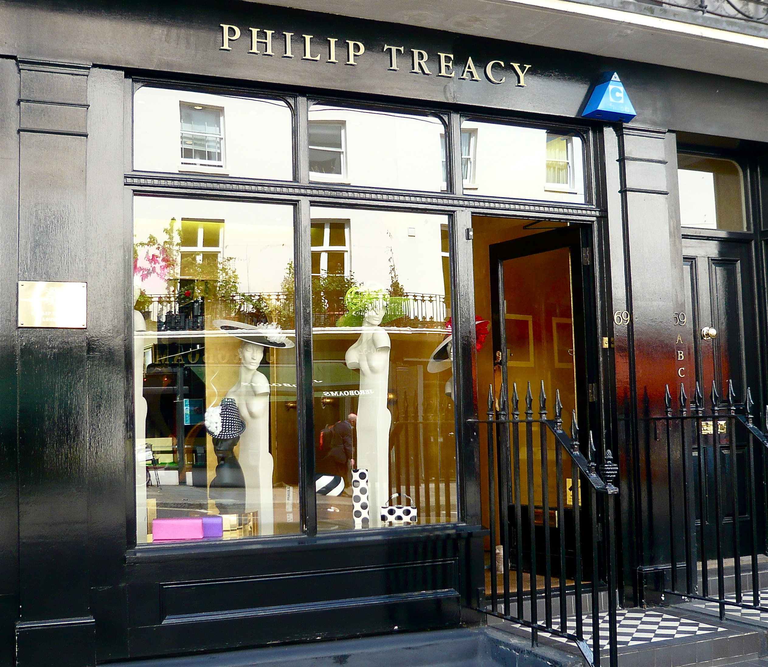 Photograph by Herry Lawford of the outside of Philip Treacy's boutique, 69 Elizabeth Street, Belgravia, London.